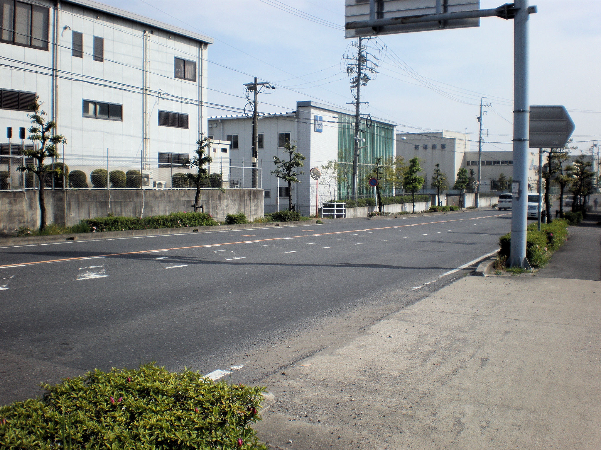 The Aichi Prefectural Road and Gifu Prefectural Road Route 27 in Shimozue, Komaki City, Aichi Prefecture